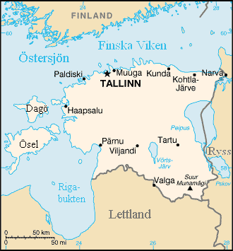 Swedish version of Image:En-map.png Modified by me